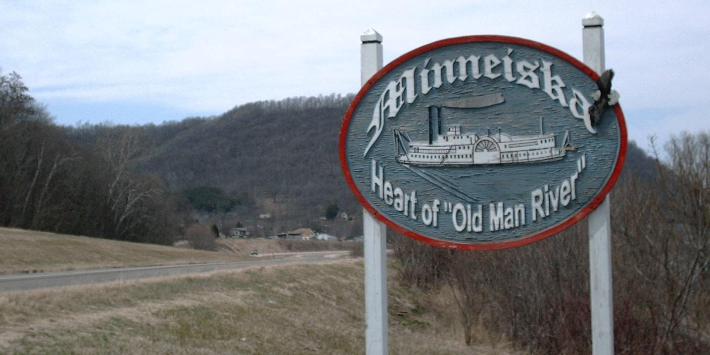 Photo I took 2006-05-09 of a welcome sign to Minneiska, Minnesota. CC & GFDL.